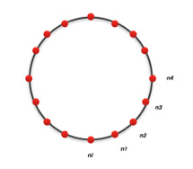 Red Pastry